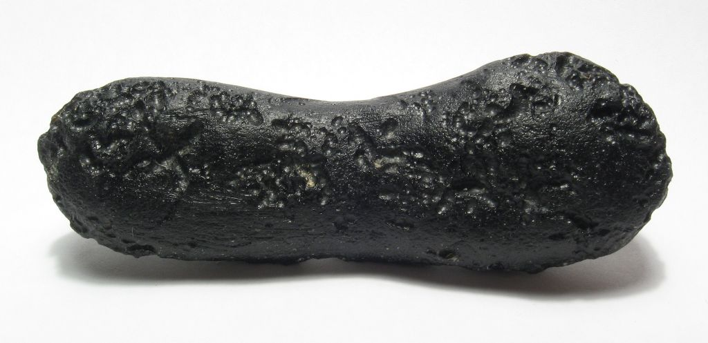 Tektite from Guang Dong, China. The dumbbell-shaped specimen weights 93g and is about 94 mm wide.